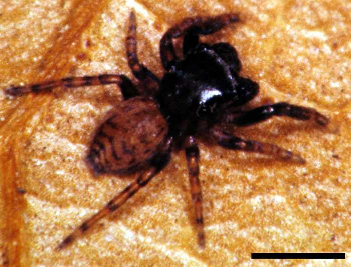 Male Neon nelli jumping spider from Alachua County, Florida, USA